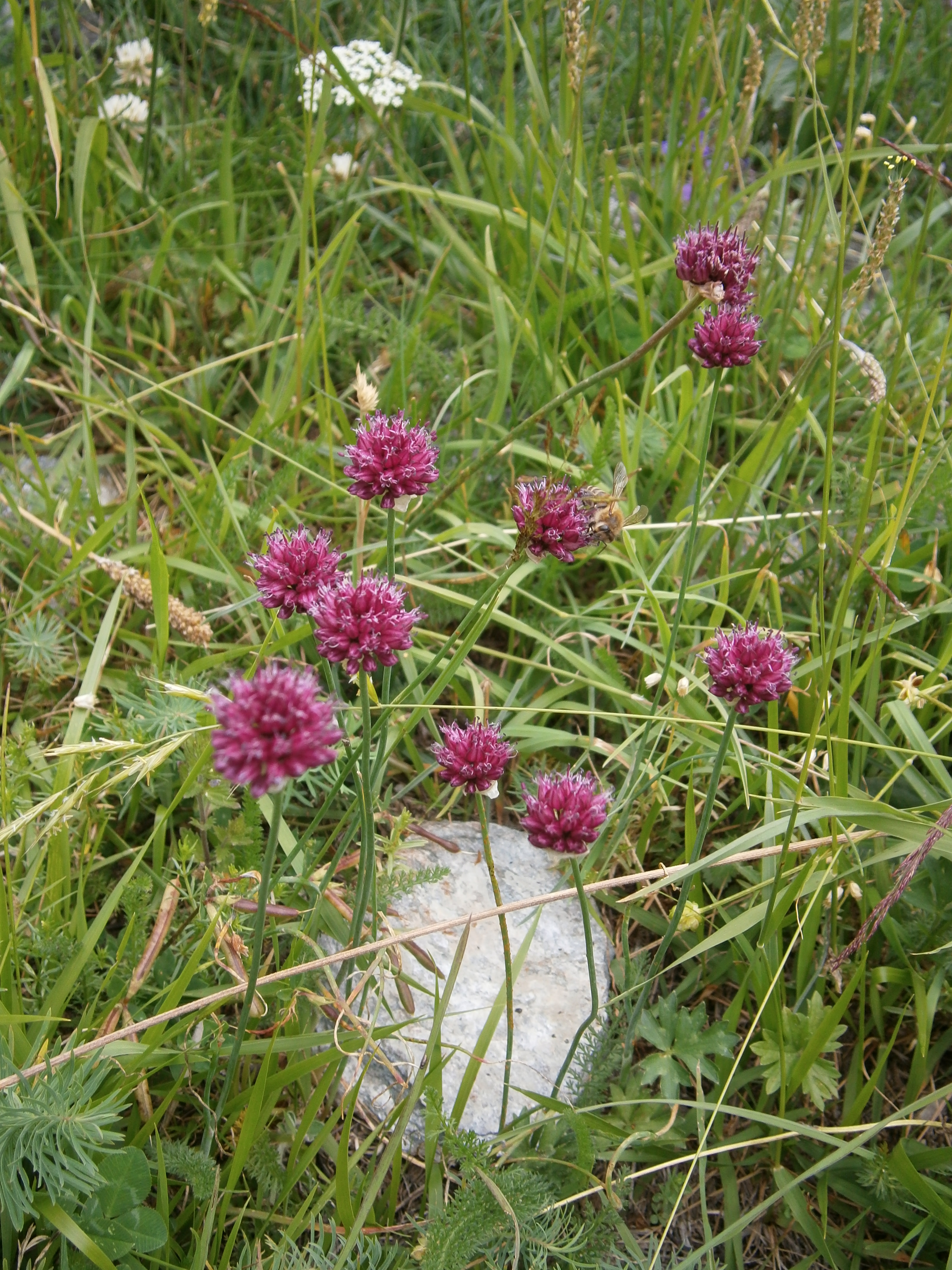 Allium sphaerocephalon var. pygmaeum